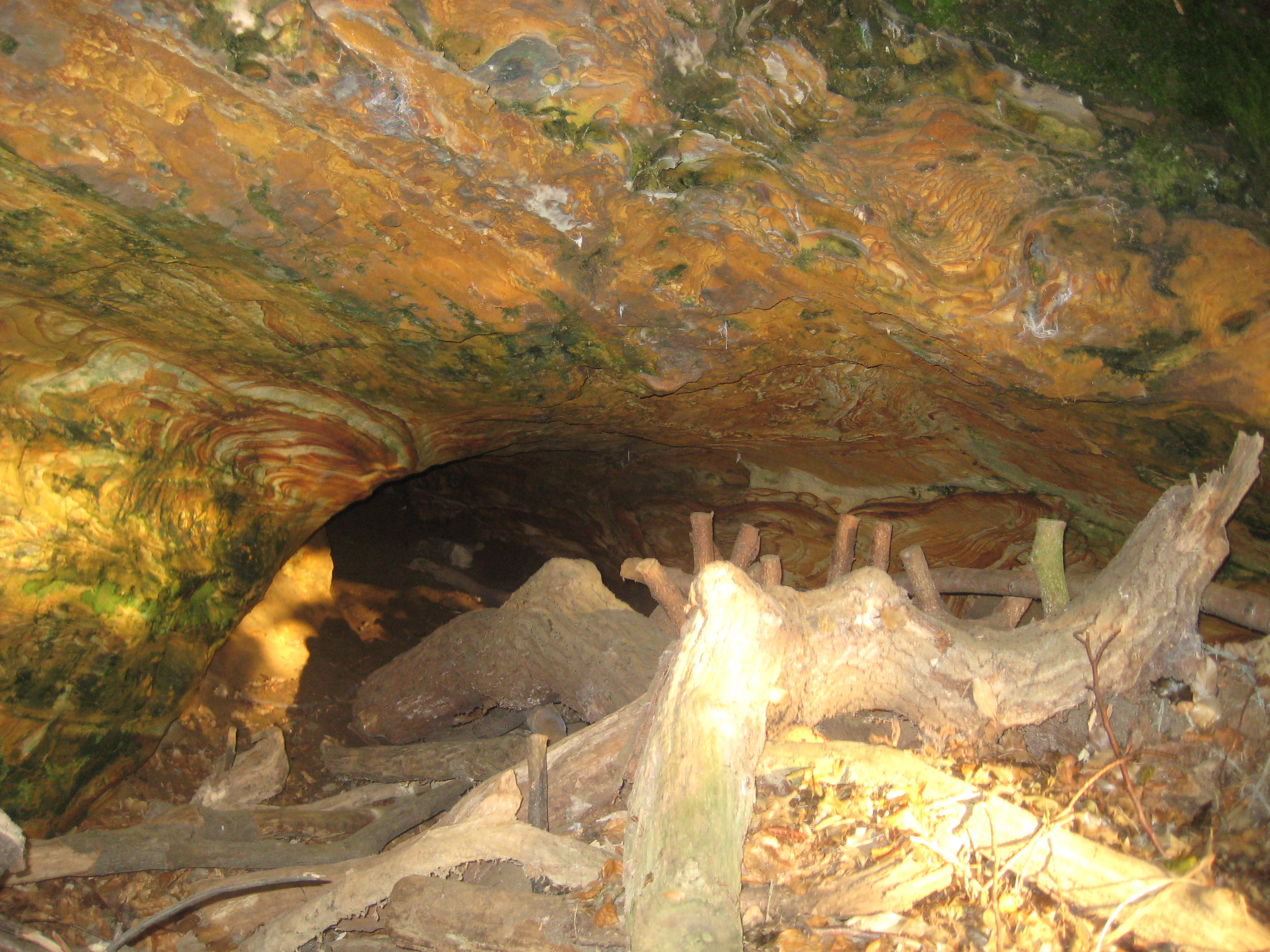 Father Foote's Cave at Moor Park in Farnham. Father Foote's Cave is an enlarged foxhole dug into the sandstone rock above and to the right of Mother Ludlam's Cave. During the Victorian period a tramp who was later known as Father Foote took up residence in the small cave.